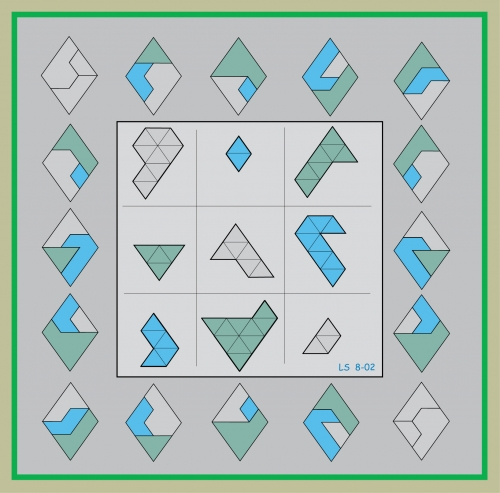 A 3x3 geomagic square using polyiamonds; piece sizes run consecutively from 2 up to 10.